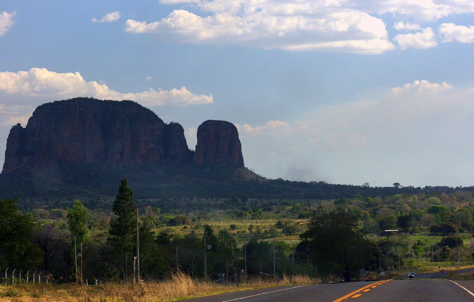 Cerro Memby.